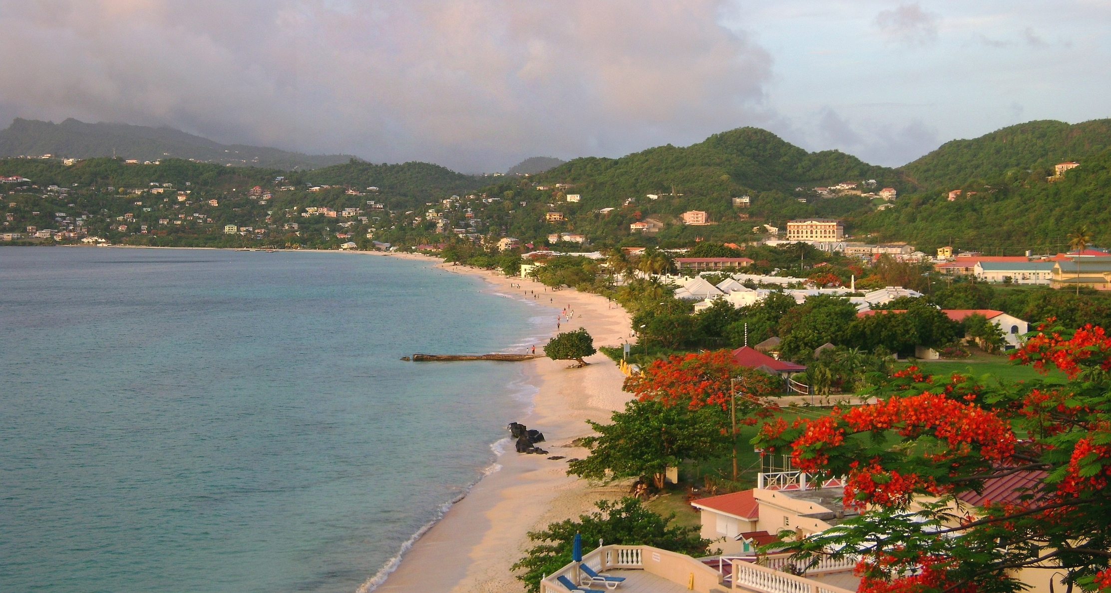 View of Grand Anse Beach, St. George's, Grenada.